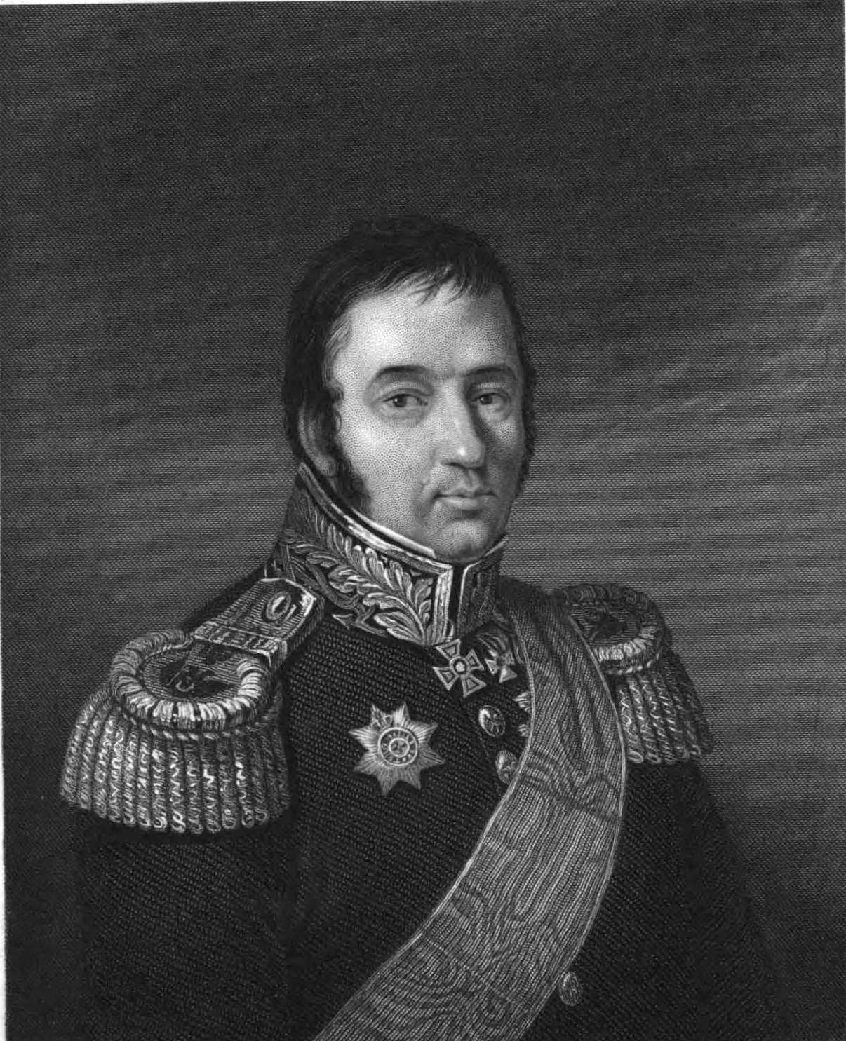 Gravure d'après peinture de l'amiral Golovnine, datée d'avant 1851